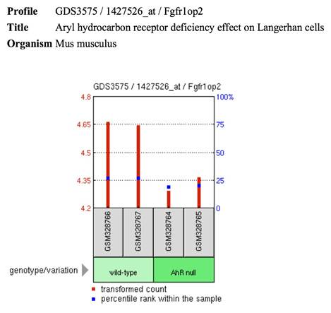 FGFR1OP2 shows decreased expression in Langerhan cells in Mus musculus.